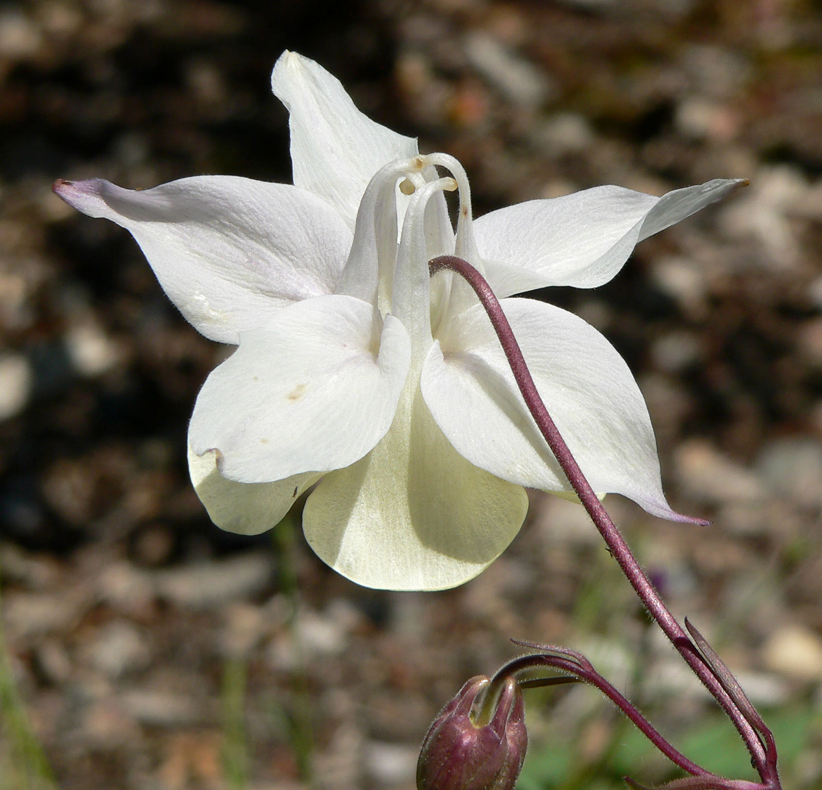 Aquilegia fragrans at the University of California Botanical Garden, Berkeley, California